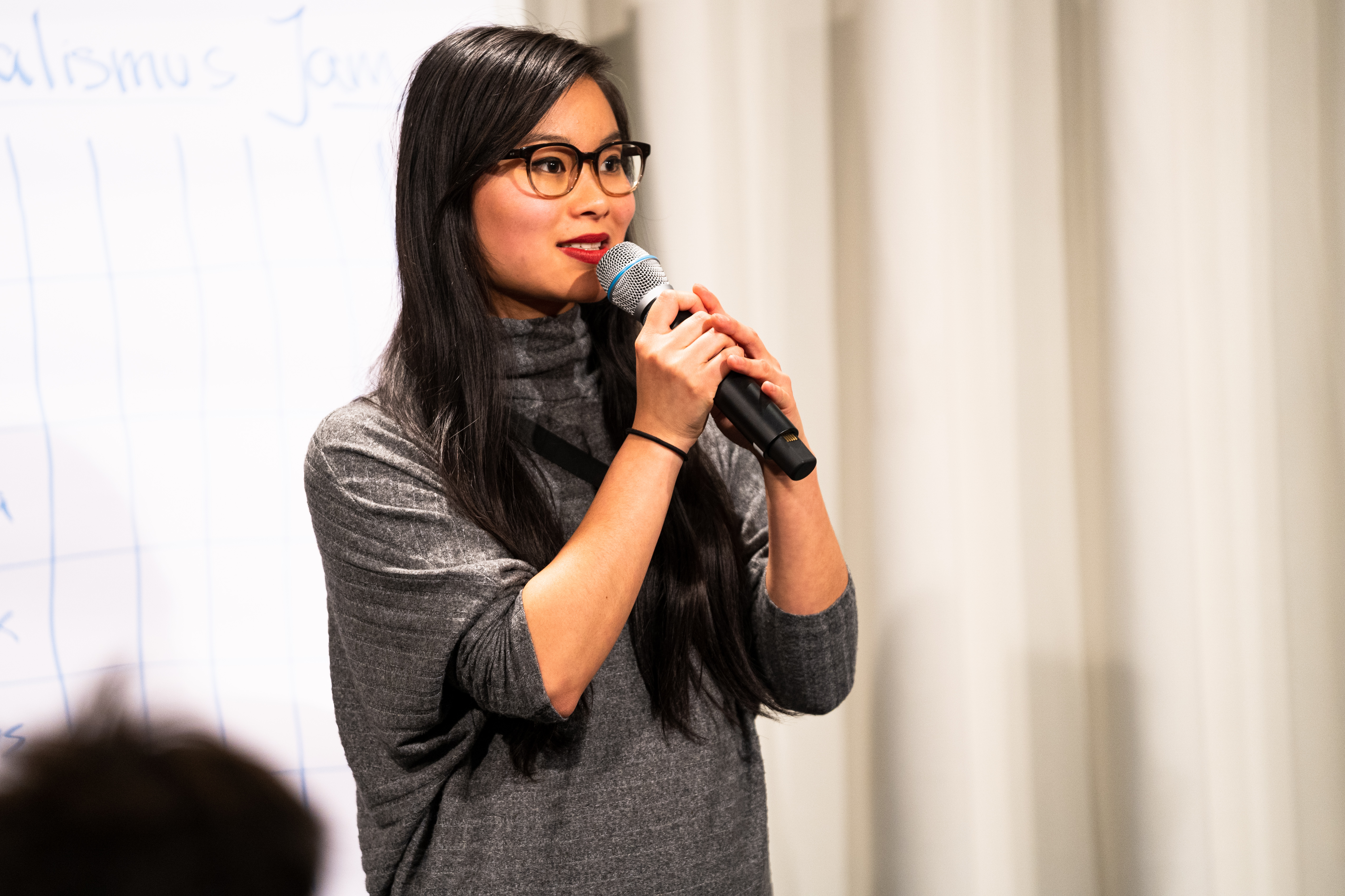 Am Abend des ersten Veranstaltungstages traten beim Journalismus Jam junge Journalistinnen und Journalisten gegeneinander an. In maximal 10-minütigen Präsentationen gaben sie ihre spannendsten Recherchen zum Besten. Das Publikum ermittelte am Ende den besten Beitrag. Moderiert wurde der Abend von Nhi Le. Foto: Jugendpresse Deutschland/Annkathrin Weis